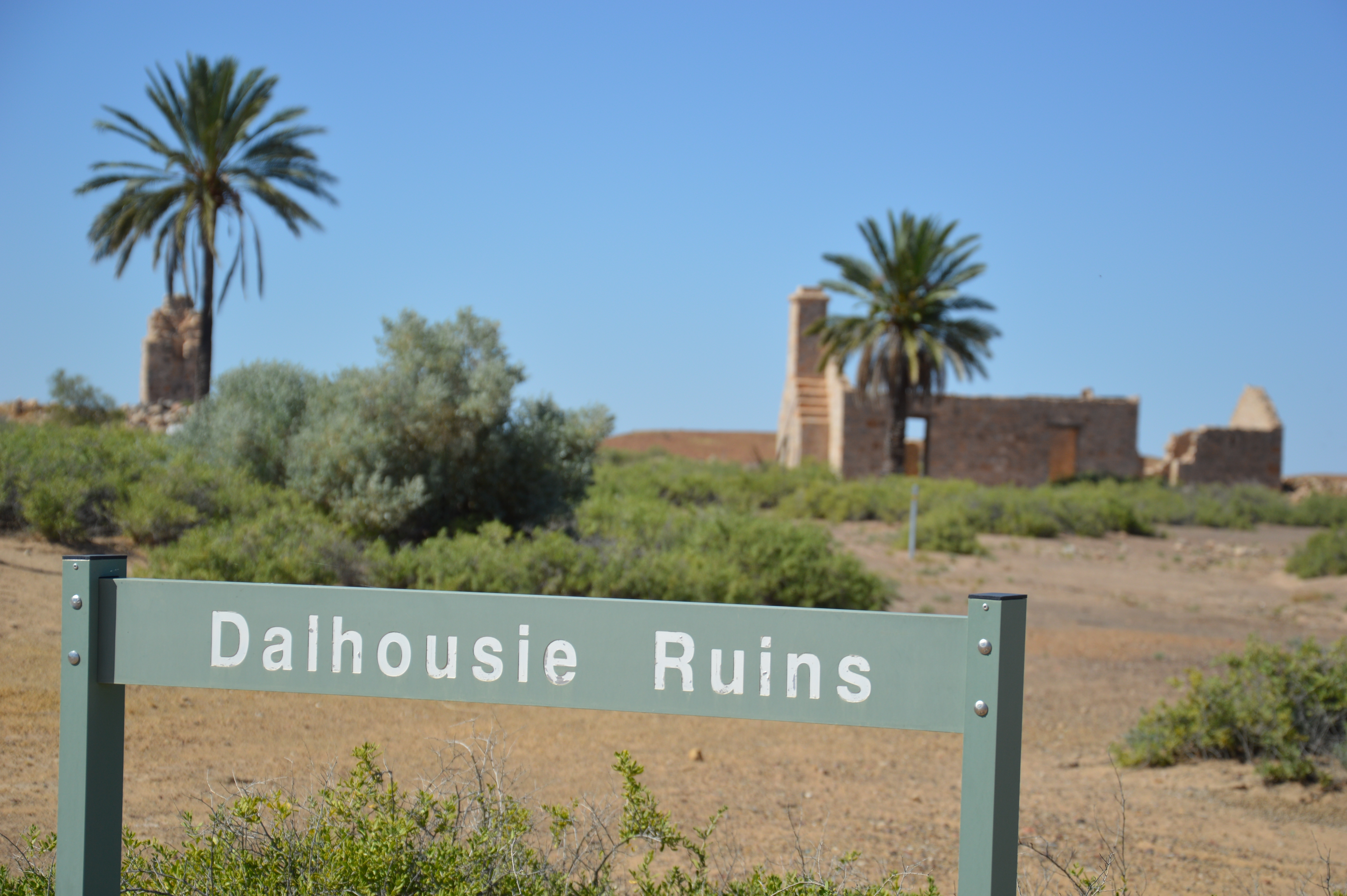 Witjira National Park includes these ruins next to mound springs and amongst palms